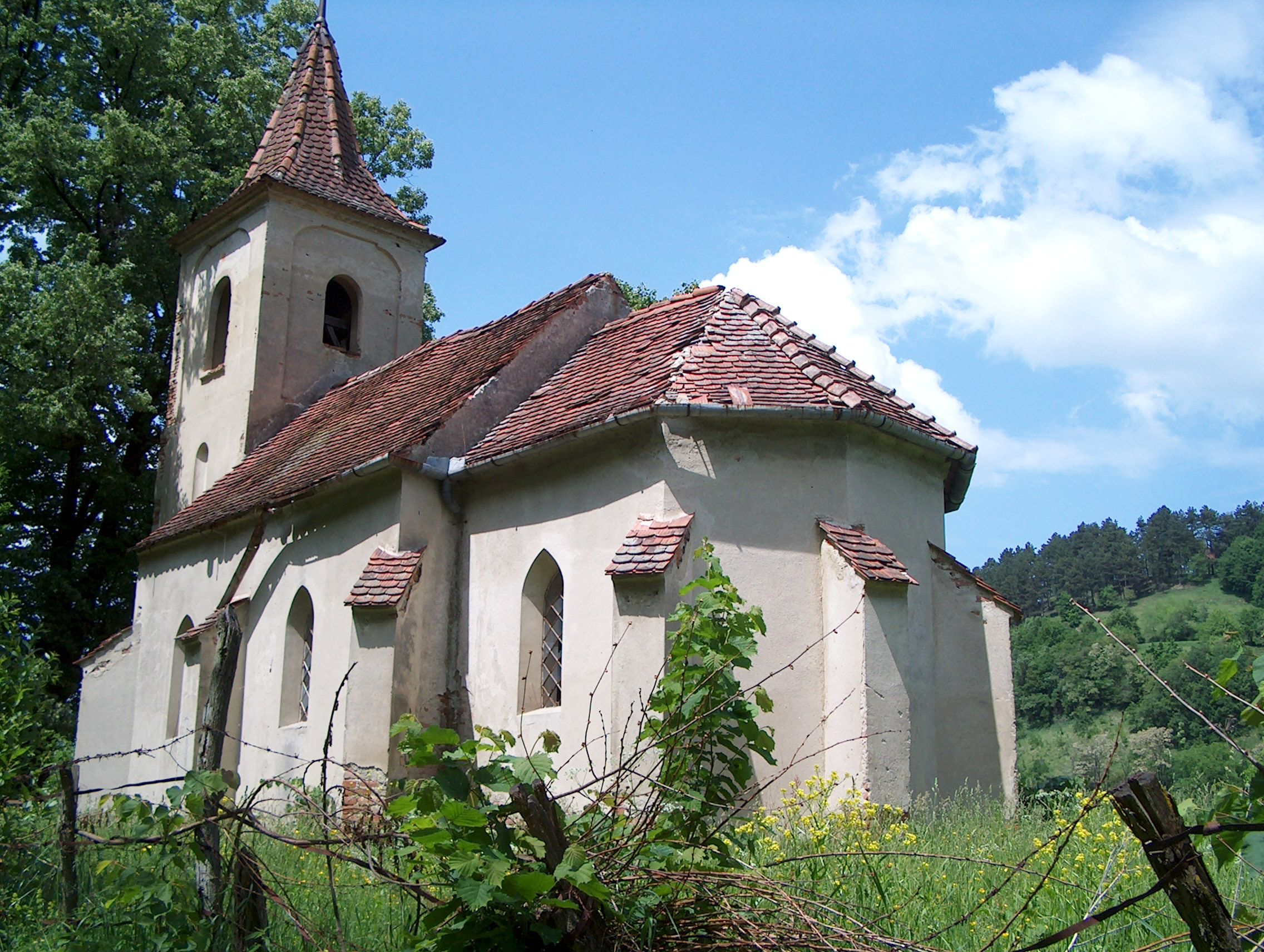 Protestant Church in Mighindoala village, Sibiu County, Romania